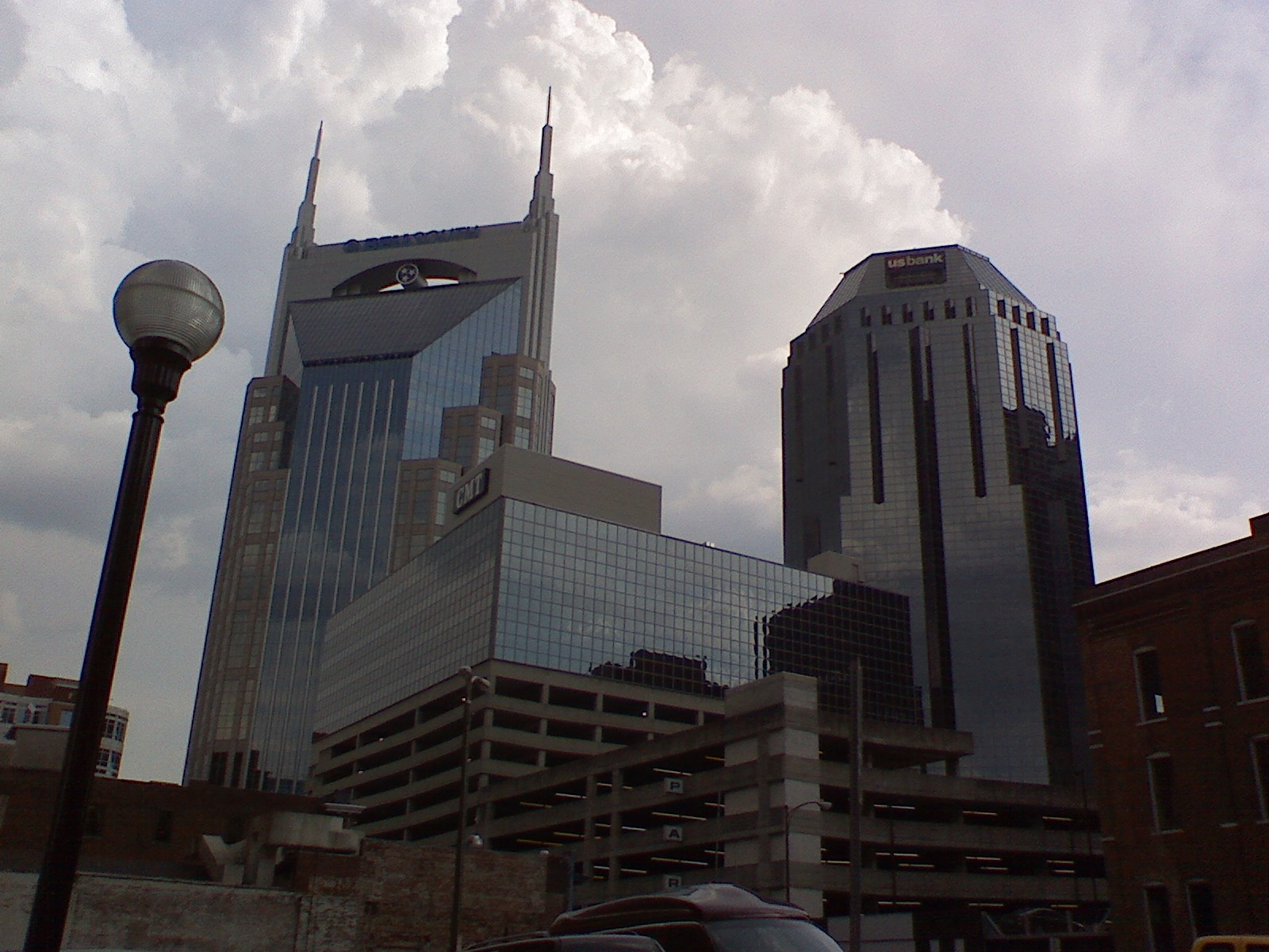 The AT&T Tower (Batman Building) & The US Bank Center from 3rd Ave N.